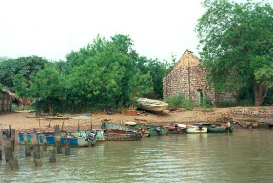 Georgetown, slave-house